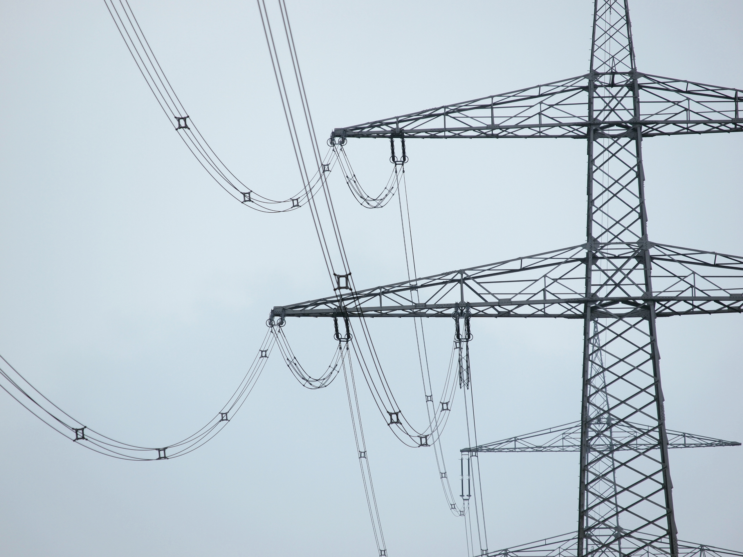 Dead-end pylon enhancing the conductor distance